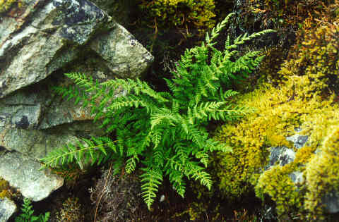 Woodsia scopulina, Clearwater National Forest, USA